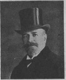 Cantor Jacob Guzman. He passed away August 1928 in Jerusalem.